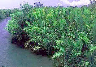 Nipa palm trees, Nypa fruticans, in mangroves of Maitum, Sarangani, Philippines Original copyright holder is LDC,Inc. Foundation ( Now released with GFDL license.